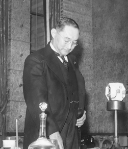 内閣総理大臣米内光政 / Prime Minister Mitsumasa Yonai (1880–1948, in office January–July 1940)